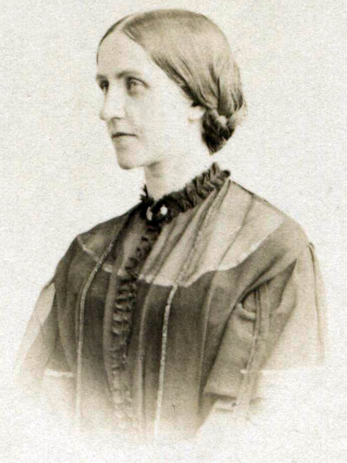 Dorothea Beale (1831 – 1906), founder of St Hilda's College